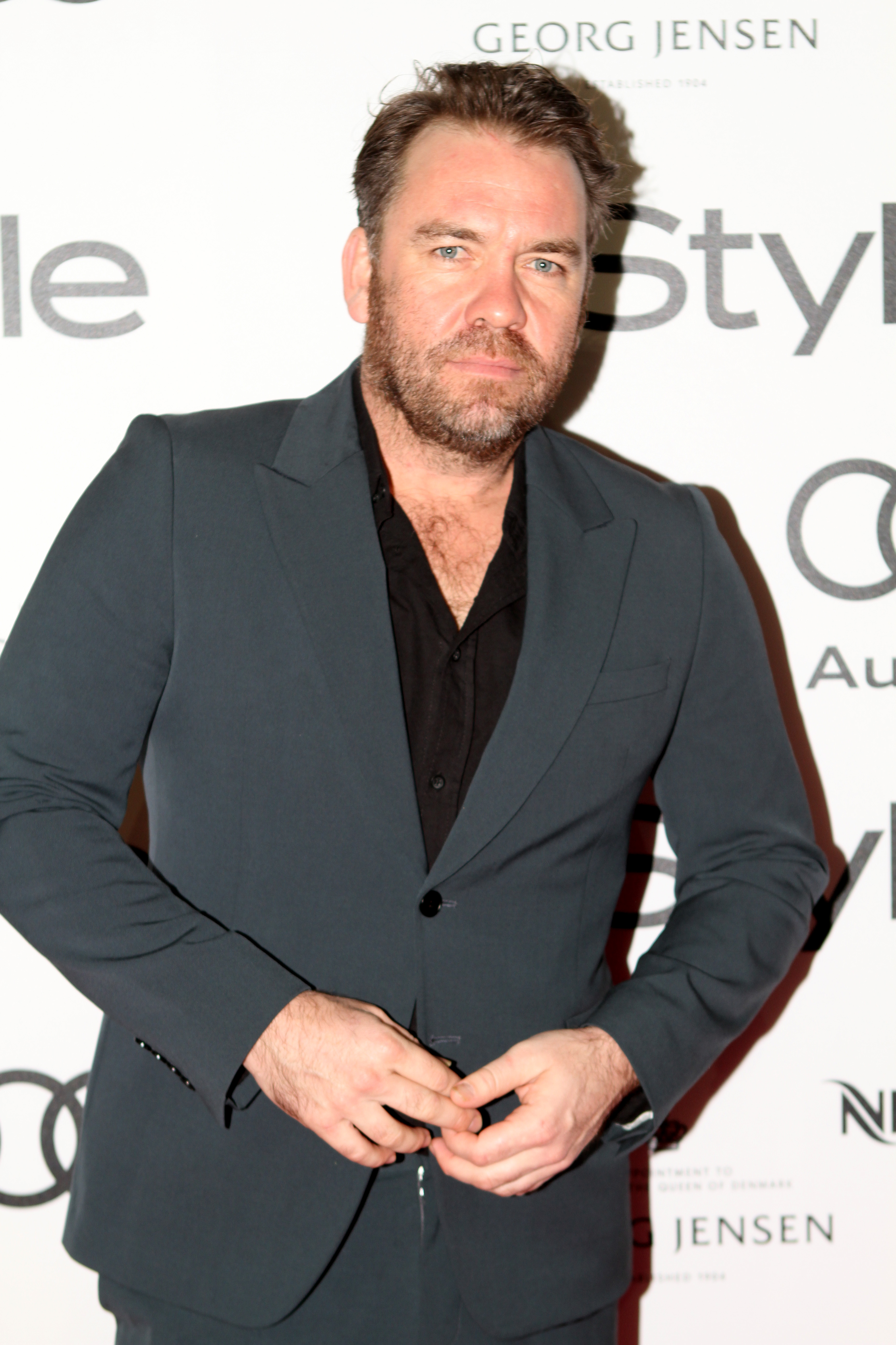 Instyle Awards 2015 InStyle and Audi Host Seventh Annual Woman Of Style Awards Red Carpet Gala Event